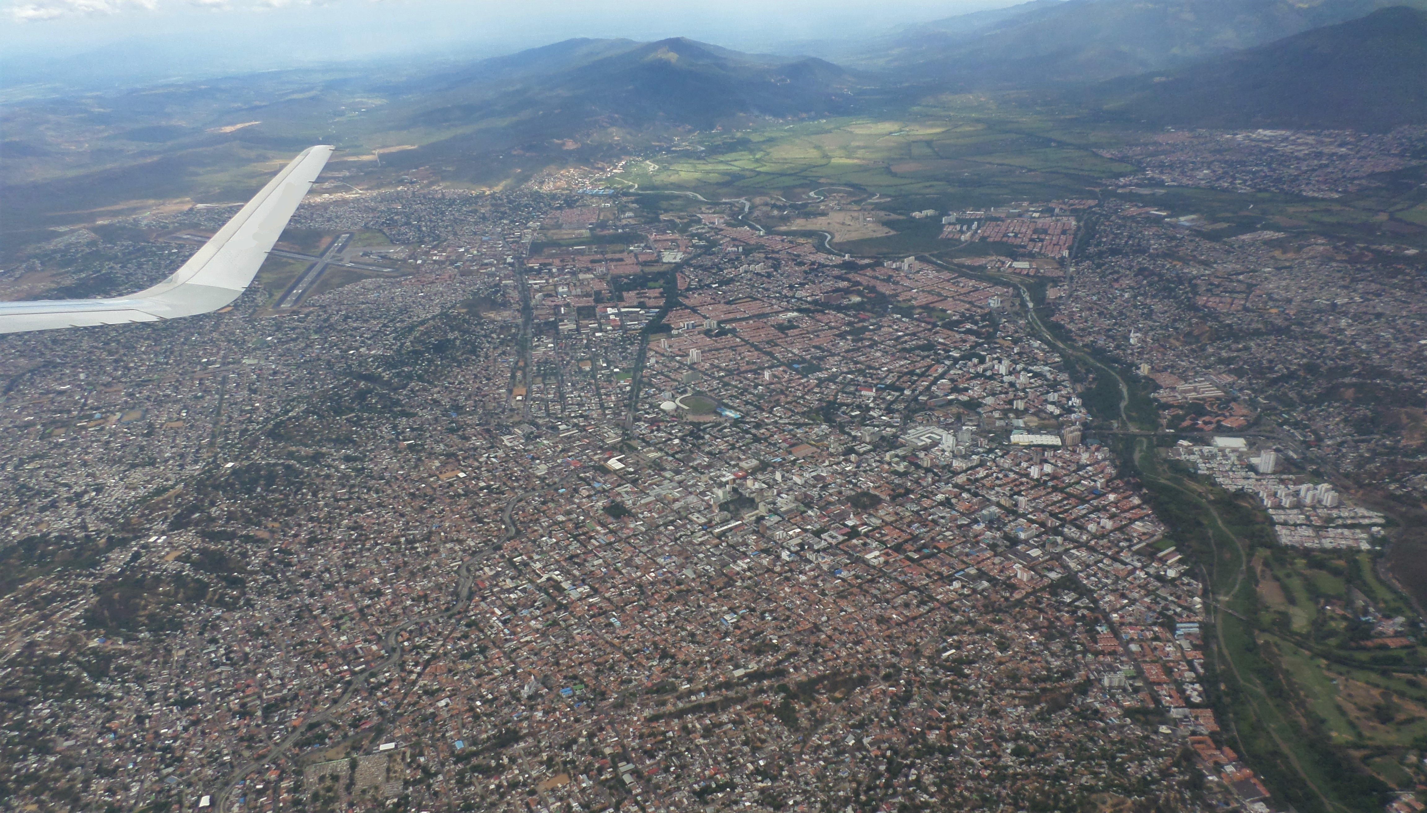 Cúcuta NS, Colombia 2017